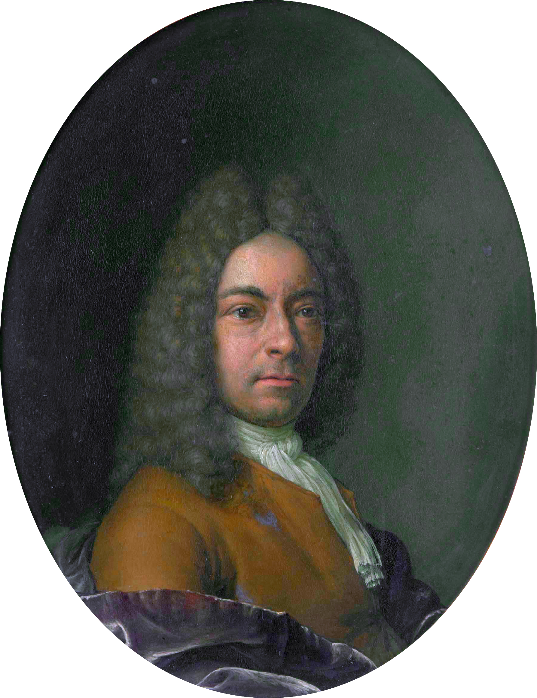 Jan Alenson oil on copper 14 × 12,5 cm signed t.: Frans van Mieris Fec: Ao 1718